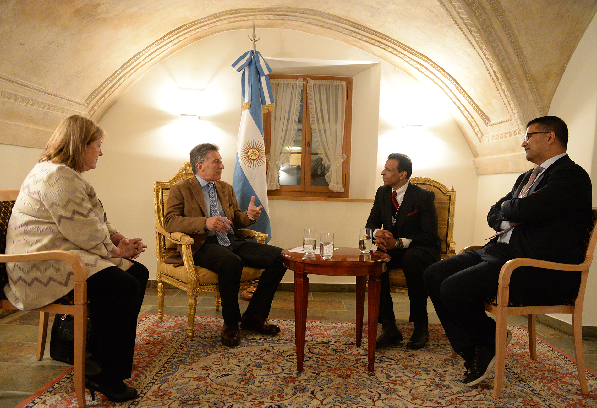 Sunny Varkey, founder of GEMS Education with Argentina's president Mauricio Macri